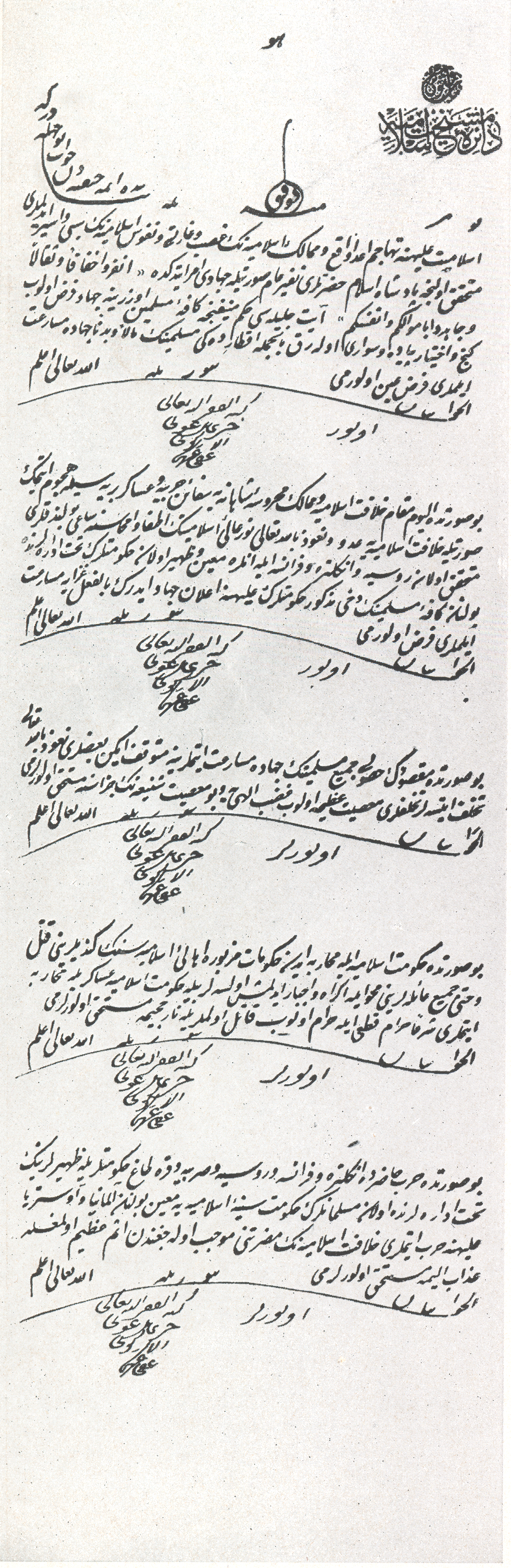 La déclaration de la Guerre Sainte à Konstantinyé en novembre 1914- Document